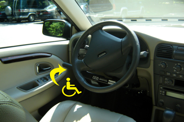 Left side hand bar control (hand-operated device) to allow a handicapped to drive an automatic car